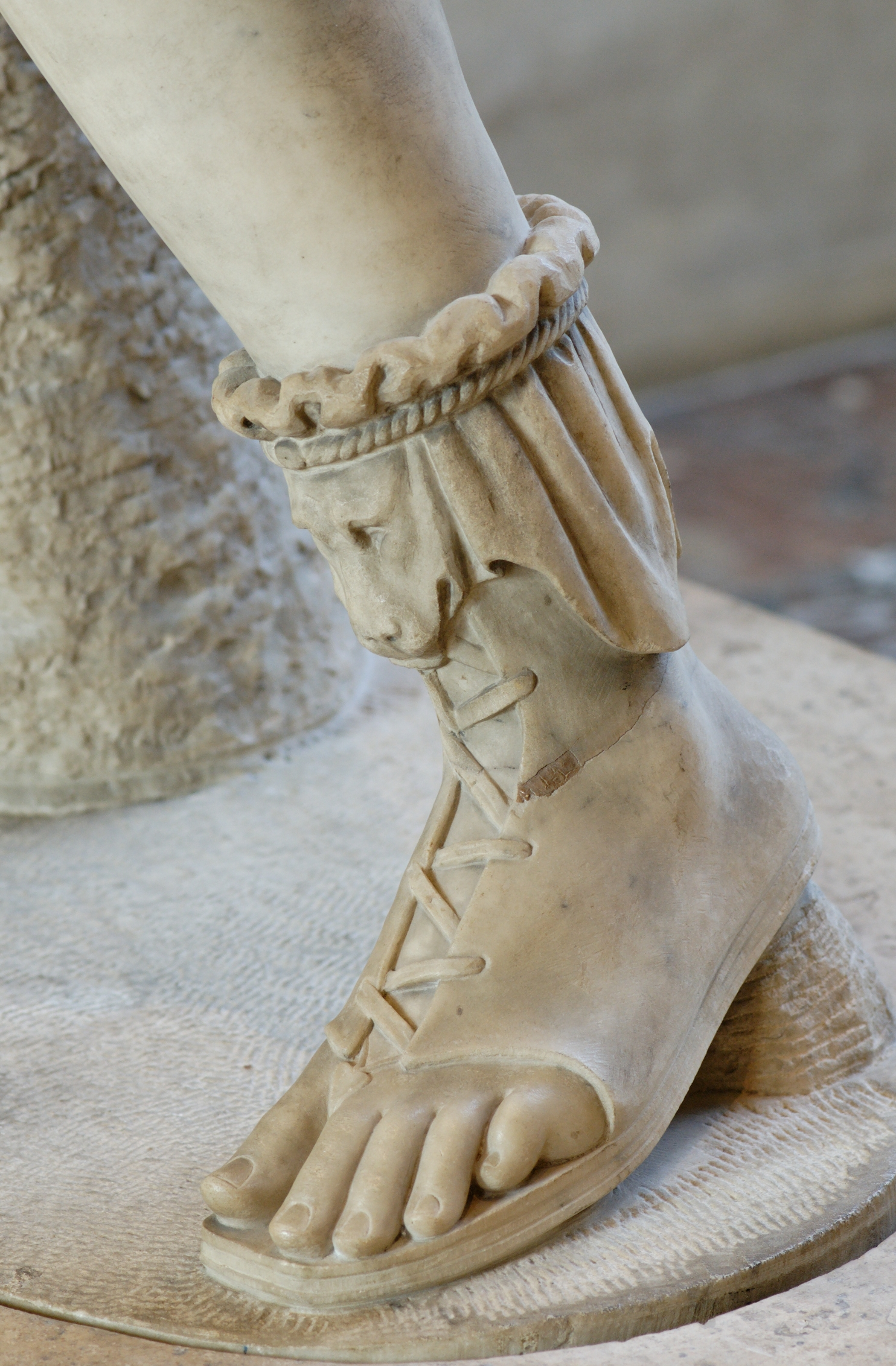 Artemis of the Rospigliosi type, detail of the footwear (left foot). Marble, Roman copy of the 1st–2nd centuries CE after a Hellenistic original, maybe the the bronze group mentioned by Pausanias (I, 25, 2), which represented a gigantomachia.